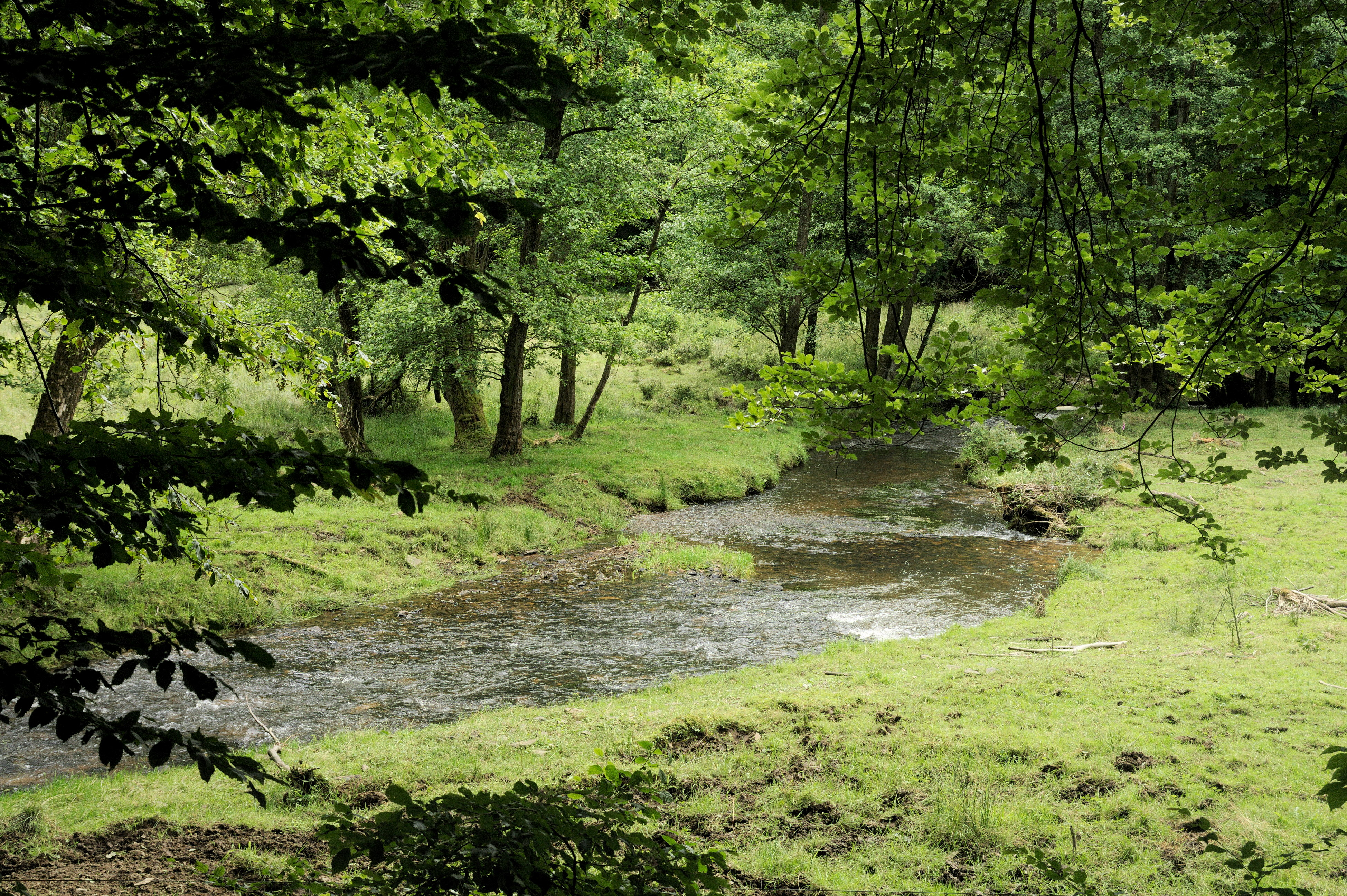 Meadow in the nature preserve Oberes Wiedtal in Westerwald region, Germany. River Wied is in the middle of the picture. Natural low mountain range creek with types of biotopes such as sources, small waters and shore woods